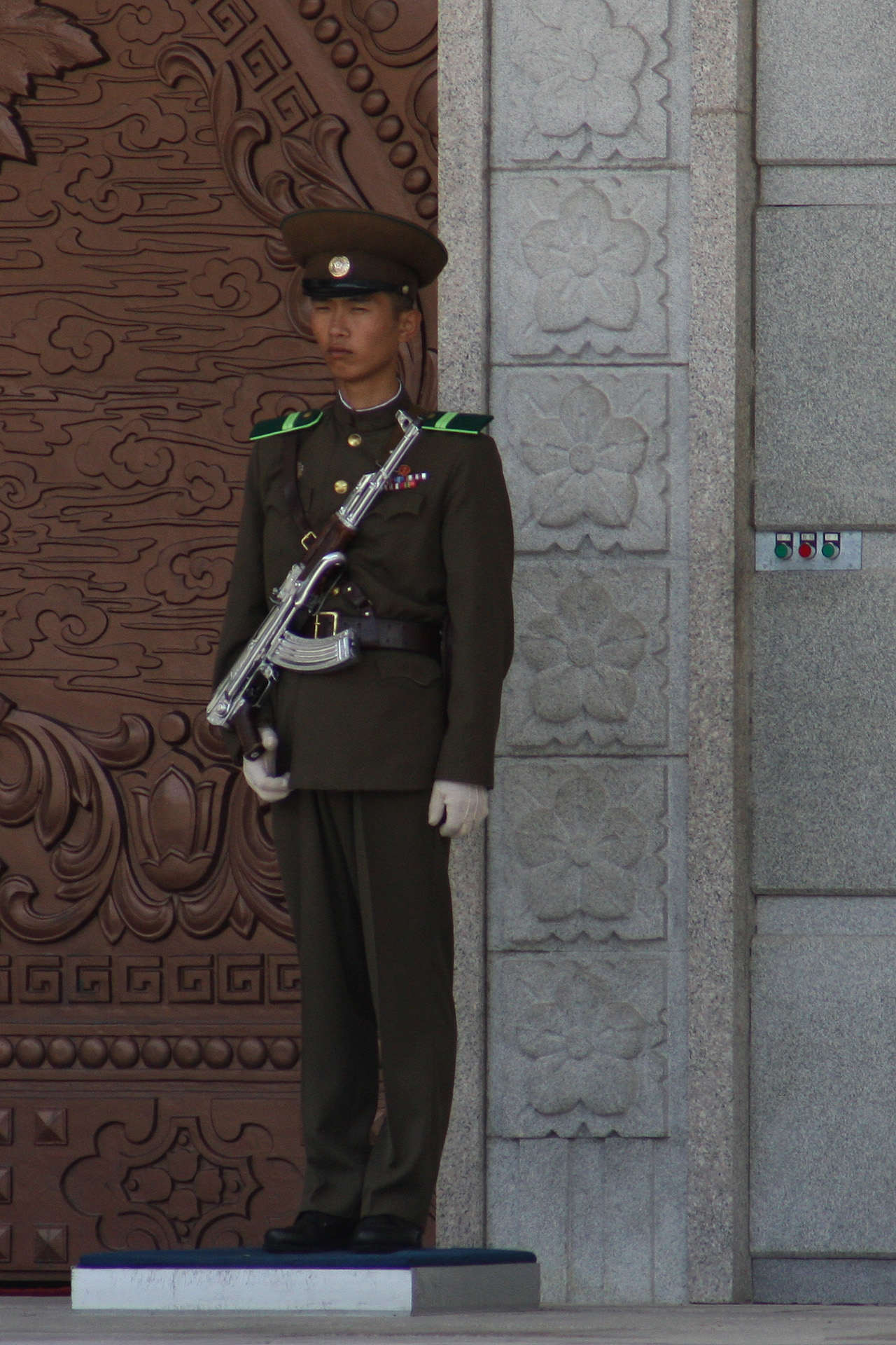 Silver Kalashnikov. Guard in front of depository of Kim il-Sung's gifts in Myohyang. 120-room gift museum in the countryside near Mt. Myohyang seems a quaint collection of kitsch; from the magnificent to the meager, silver chopsticks from Mongolia and a tiny rubber ashtray from the Hwabei Tire Factory in China.